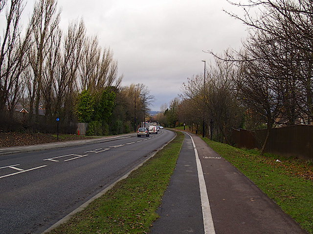 Dixon's Bank The A172 road heading to Middlesbrough.